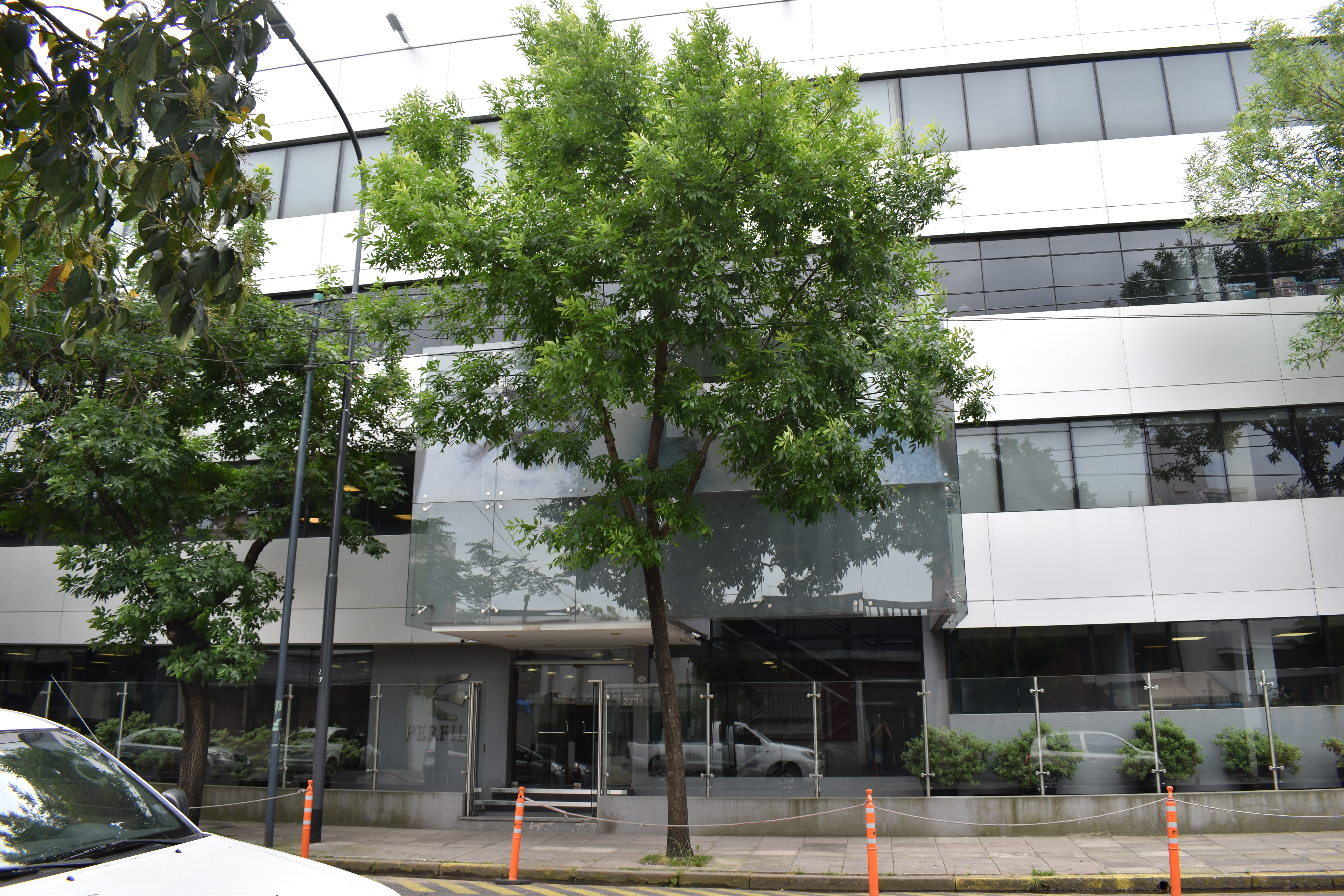 Headquarters of the Perfil newspaper.